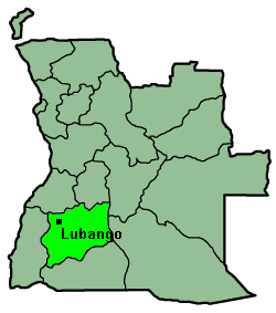 Lubango in Angola